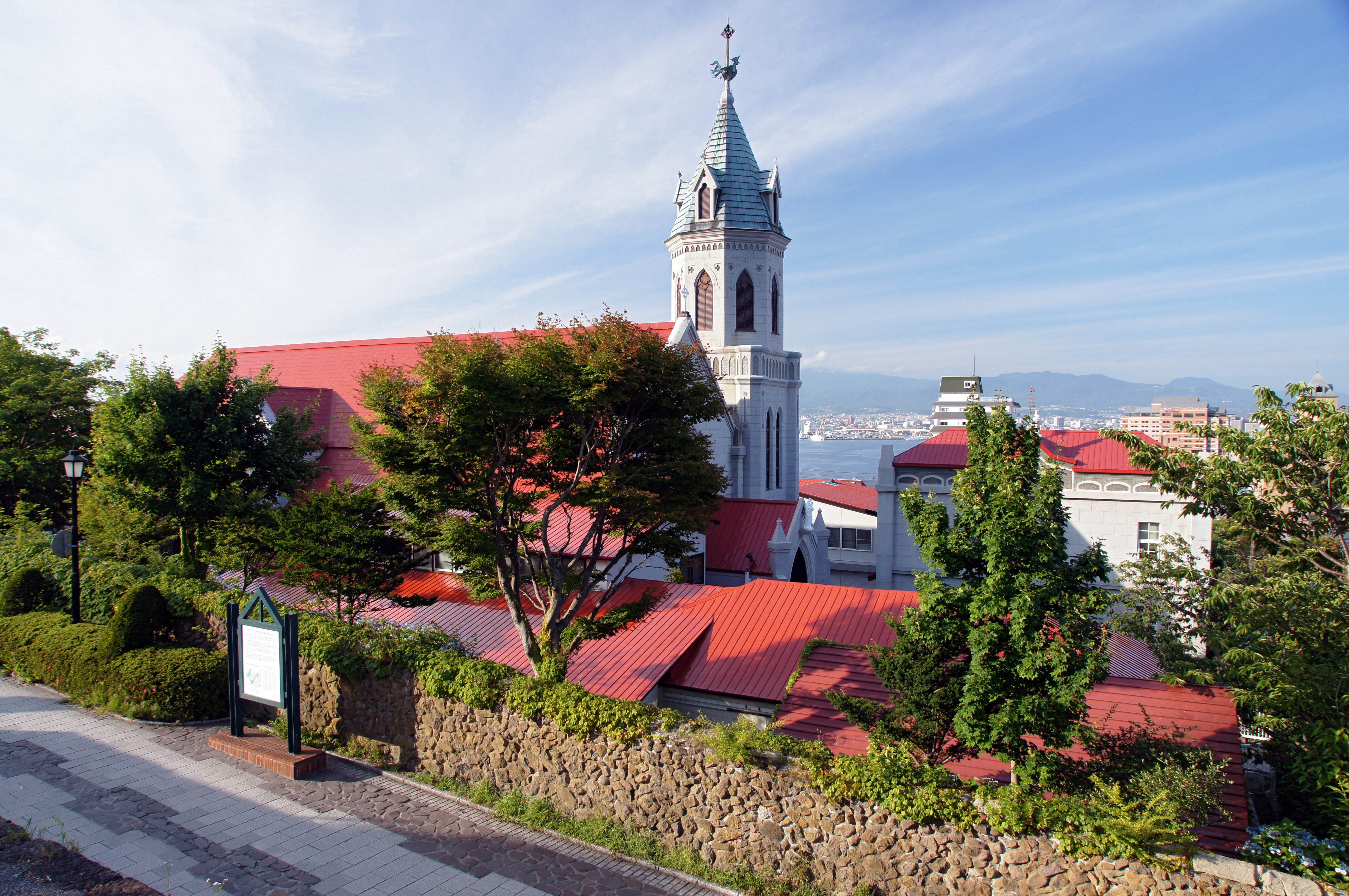 Motomachi Catholic Church in Hakodate, Hokkaido prefecture, Japan